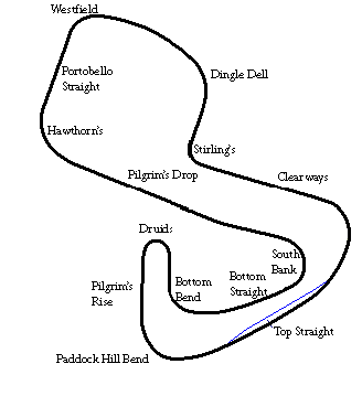 Brands Hatch Grand Prix circuit from 1960 to 1975.